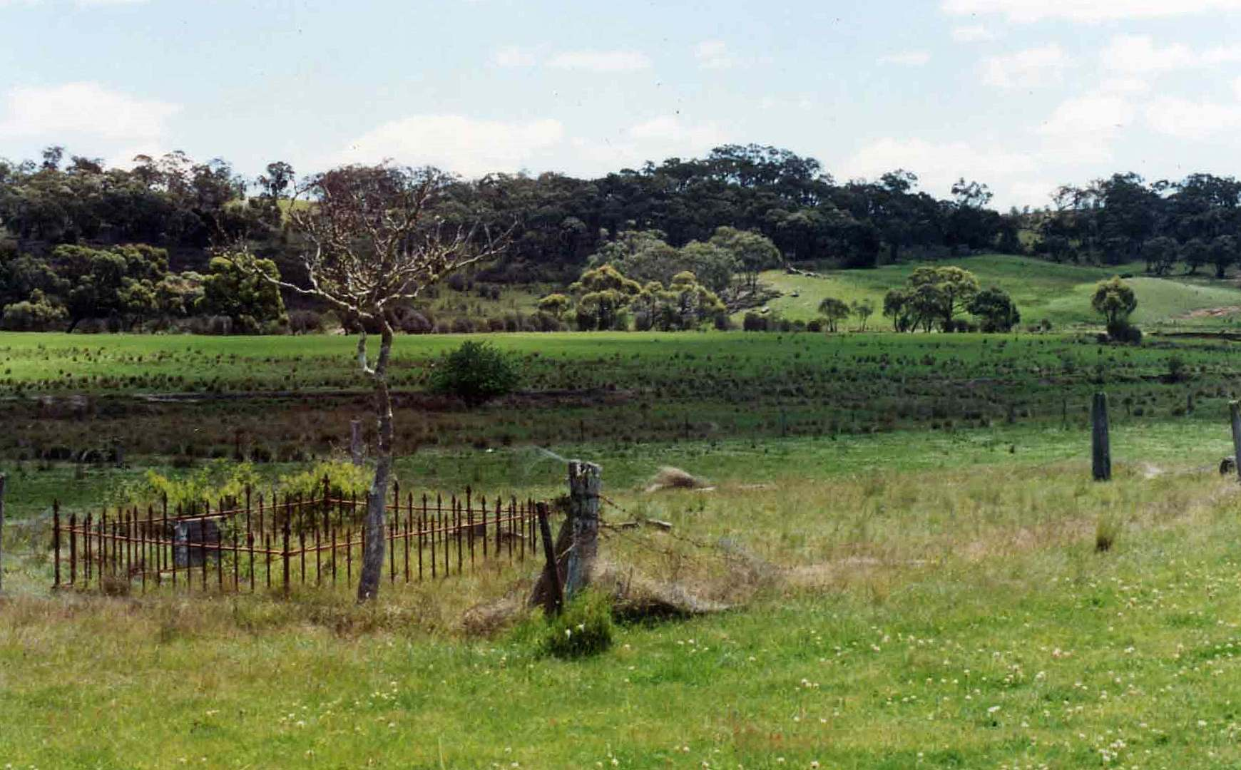 The Eastfield Farm. Mongarlowe, Braidwood, NSW, Australia.